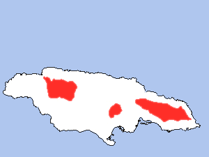 Range of Nesopsar nigerrimus